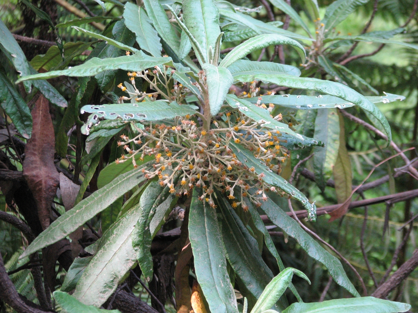 Bedfordia arborescens, Baw Baw National Park, Victoria, Australia